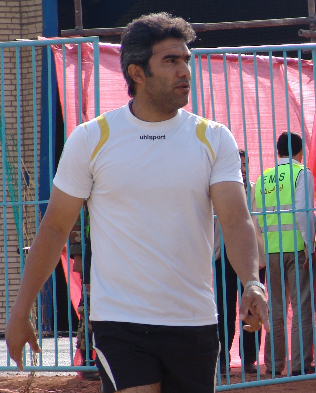 Ahmad Reza Abedzadeh in Semnan